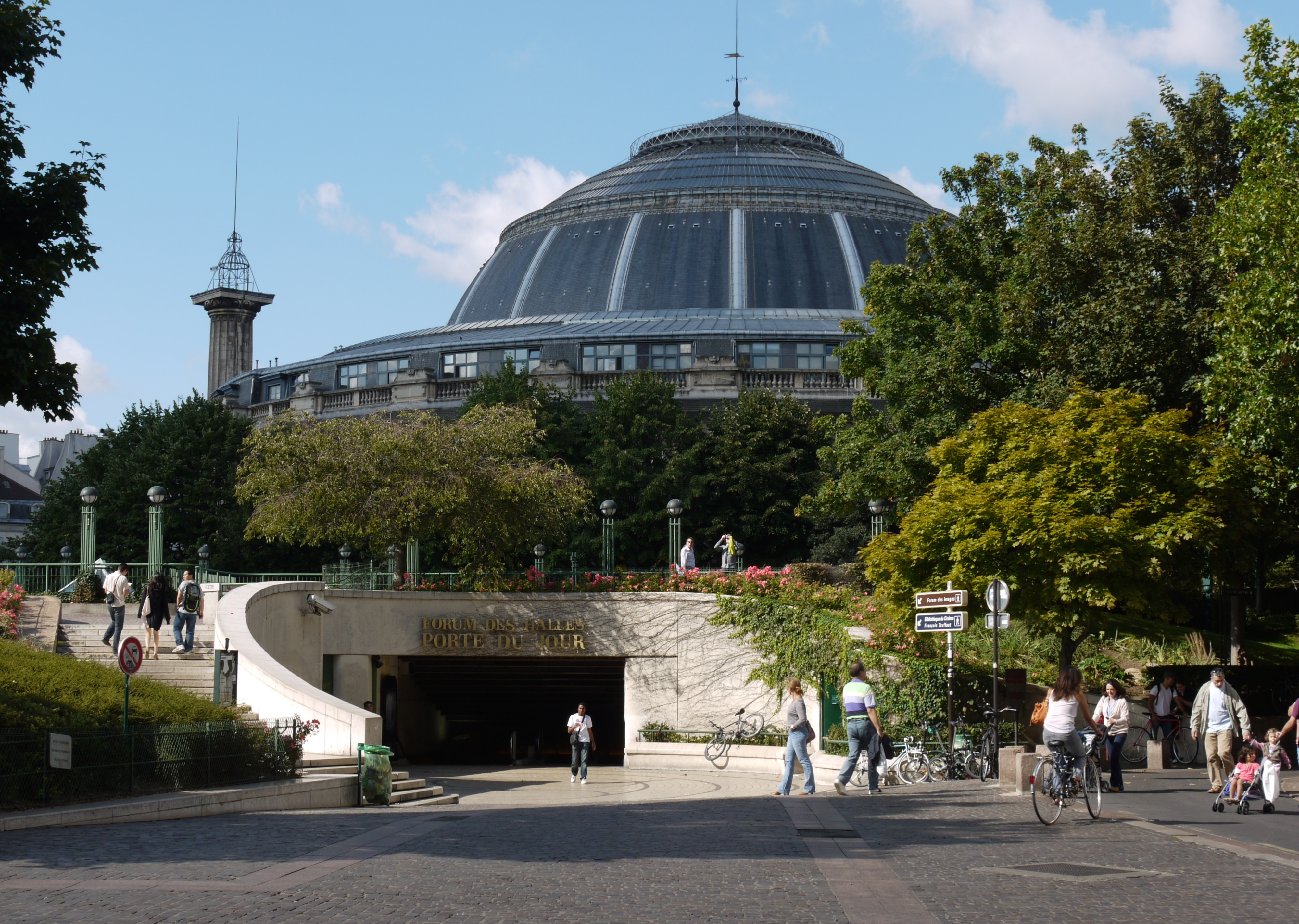 Entrance of Forum des Halles and Bourse de Commerce, Paris